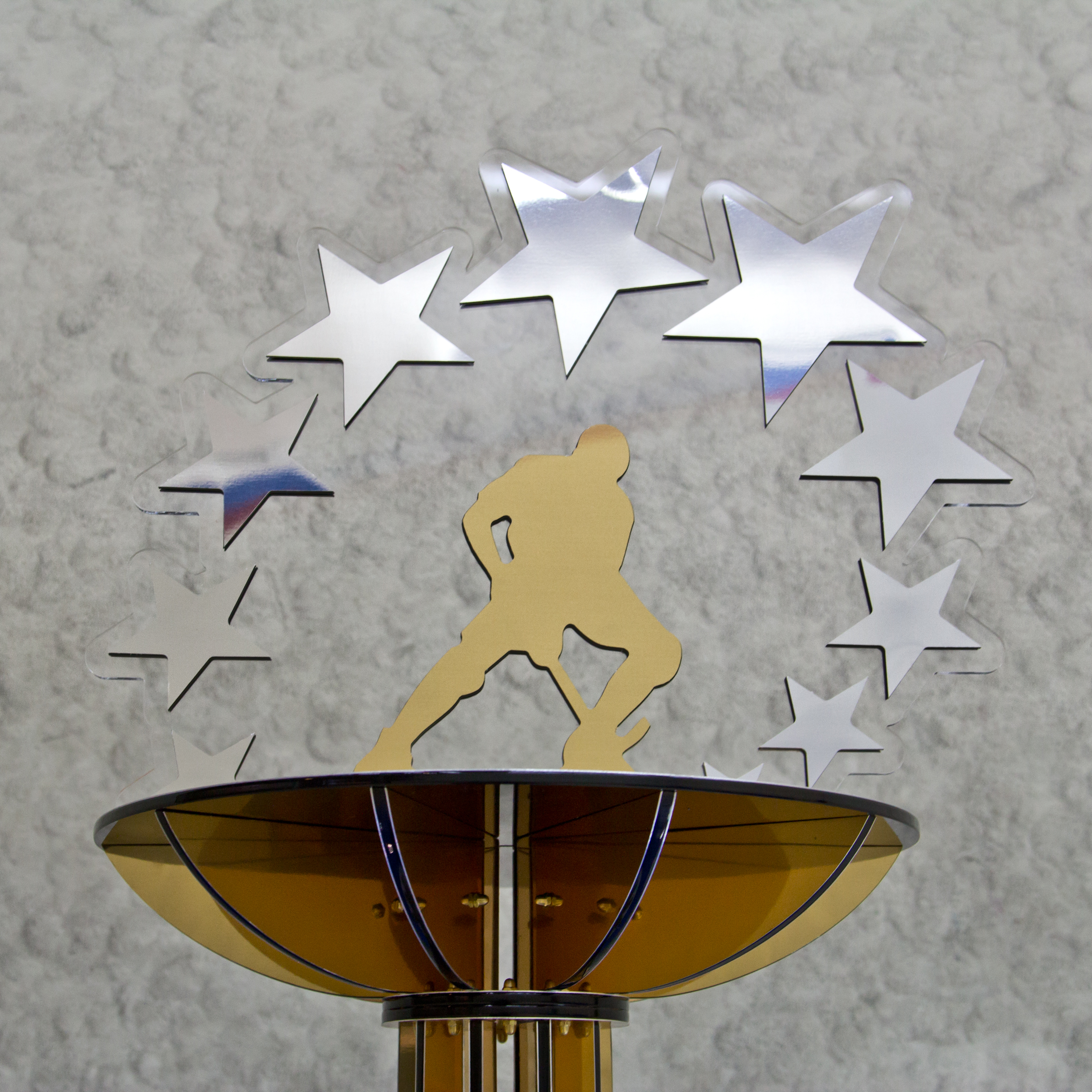 Trophy of 2014 CERH European Championship.